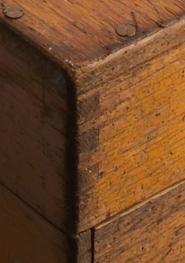 A box joint in the lid of an Enigma machine. Also screws holding the top to the frame, and the sides and front flap of the base.